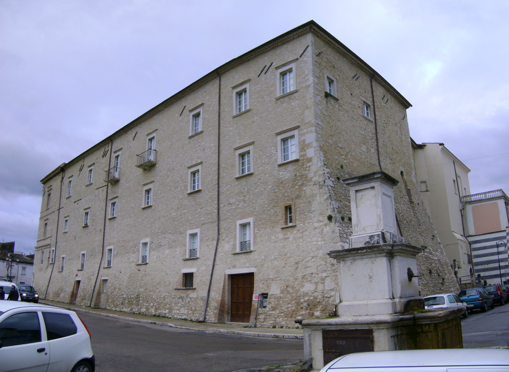 The Ducal Palace of Larino, in the province of Campobasso, Molise